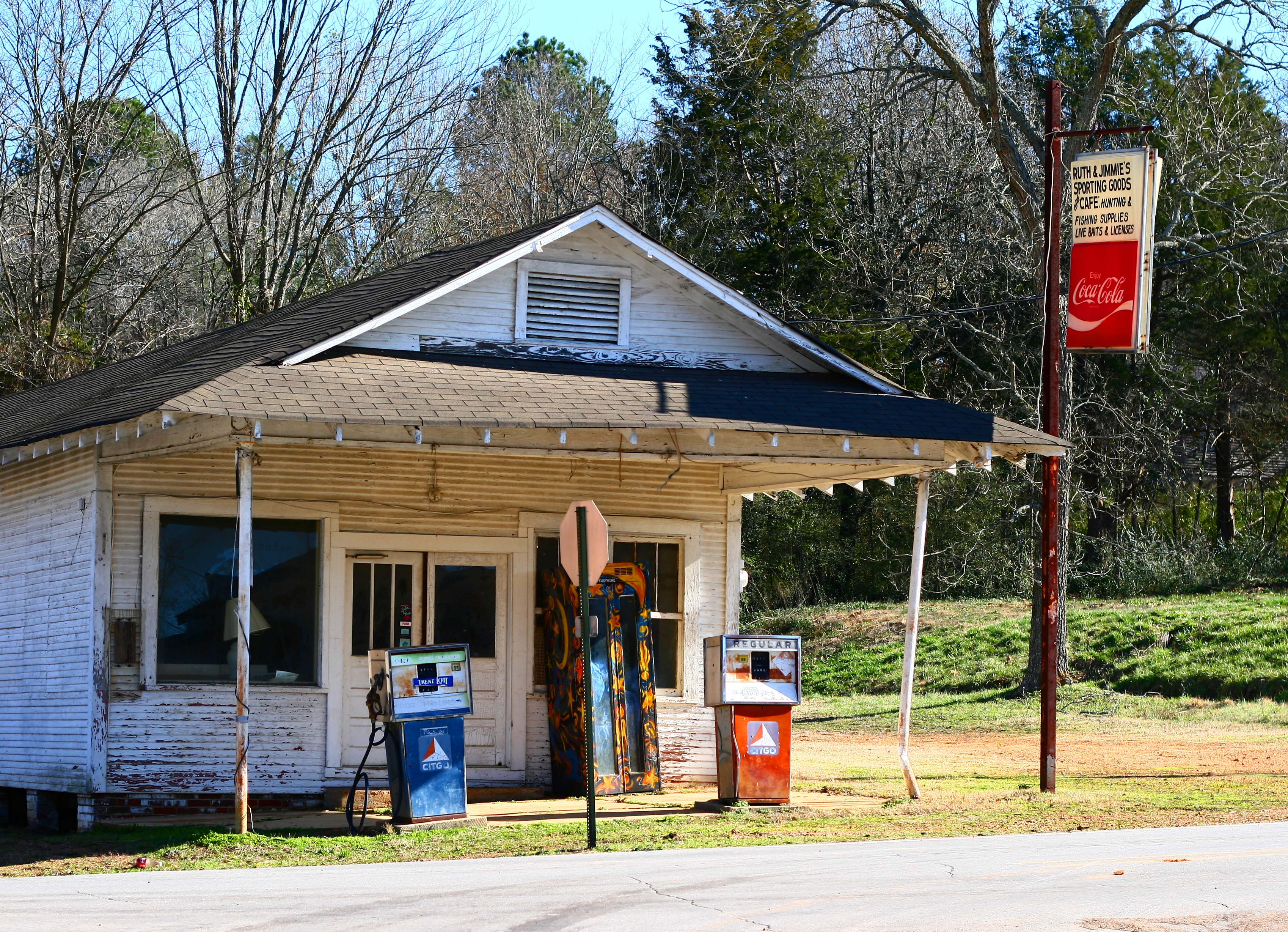 Ruth and Jimmie's Sporting Goods and Cafe in Abbeville, Mississippi